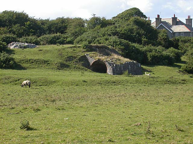 Llanddewi limekiln. Limestone quarries and kiln remains close to the main road.